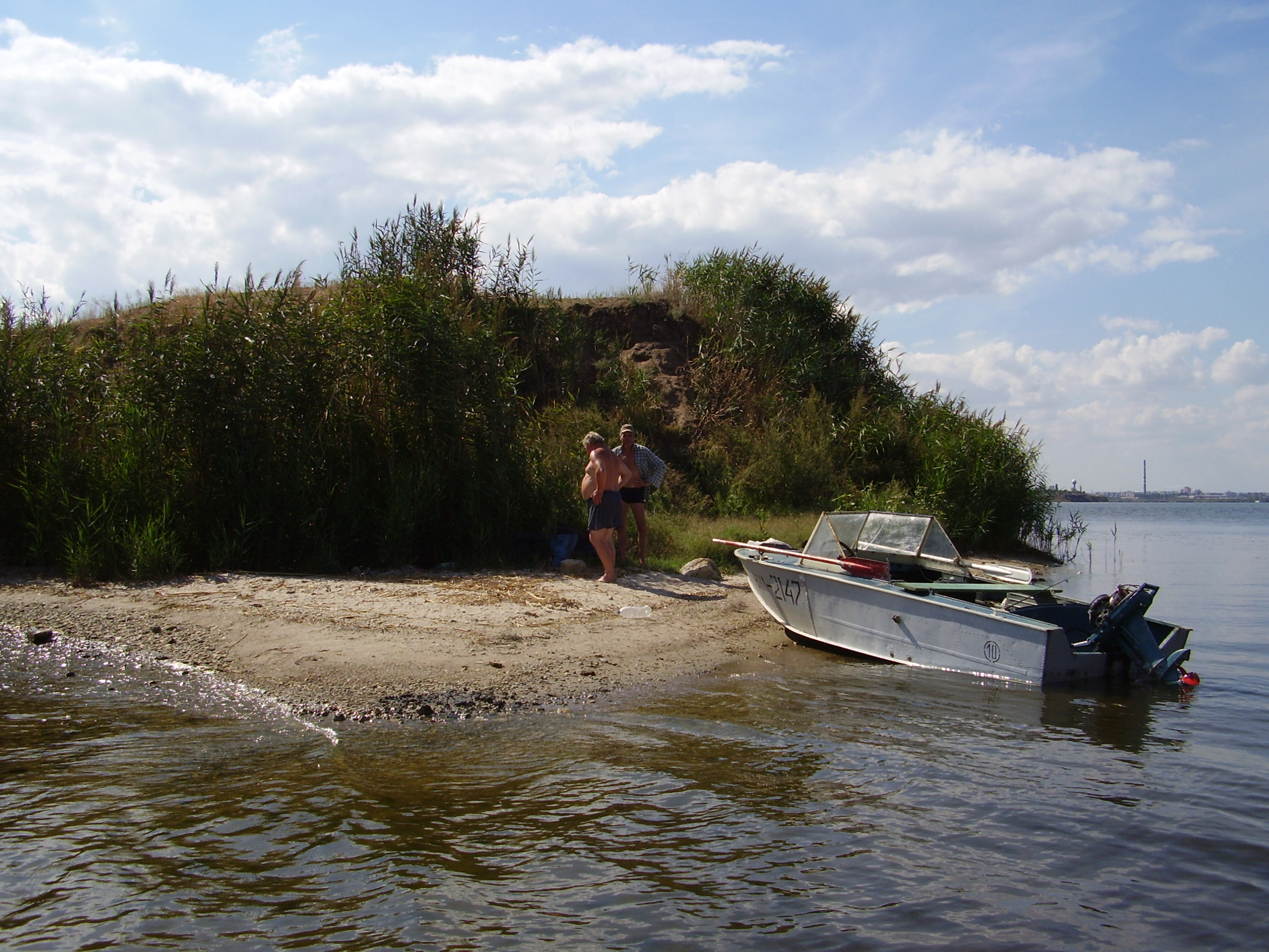 Батарея, Миколаїв. Північний схід